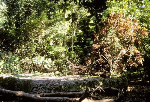 Marae on Atiu Island (Cook Islands)